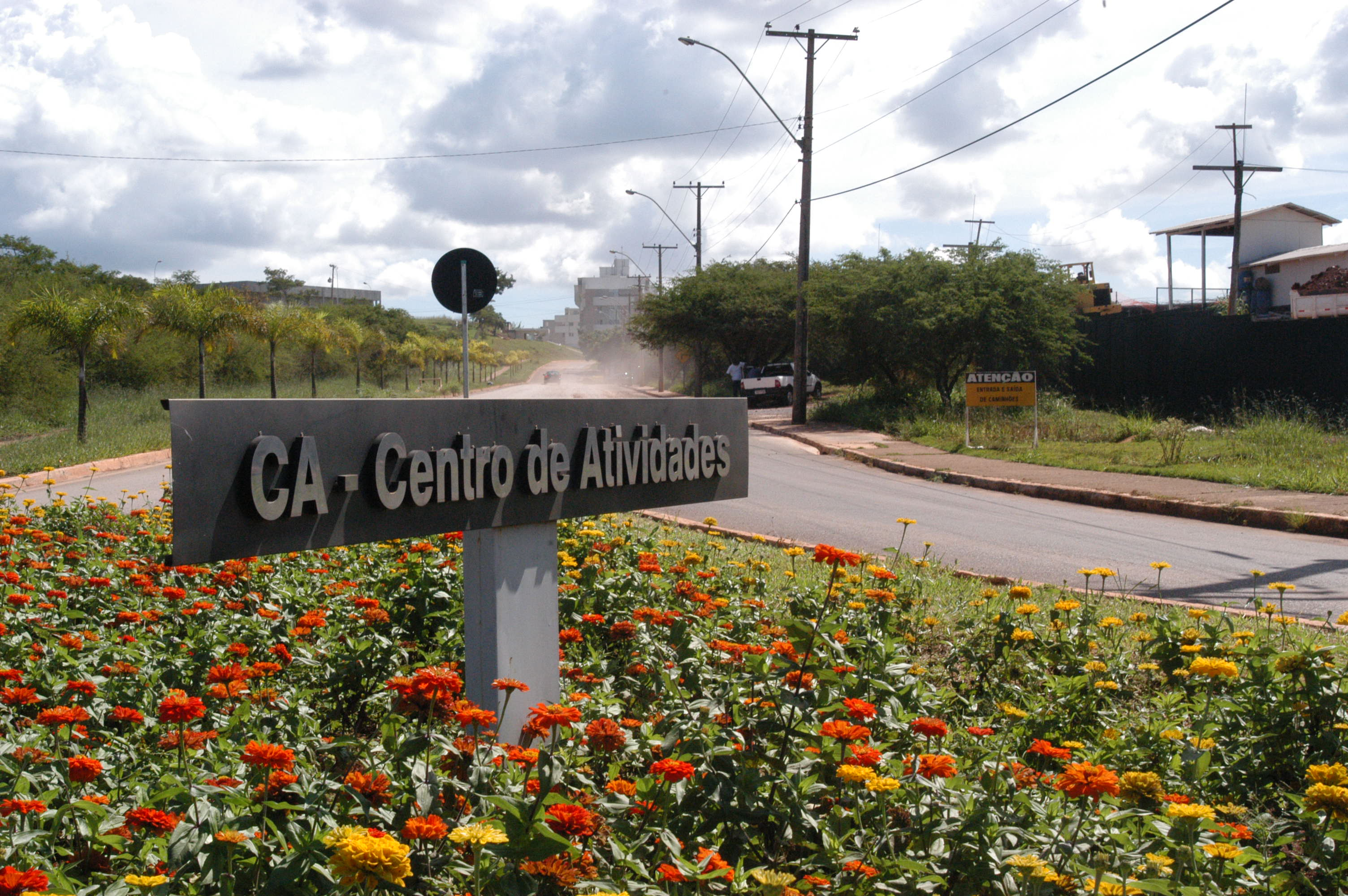 centro de atividade picture←